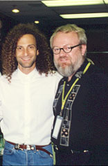 Kenny G and Anders Nelsson